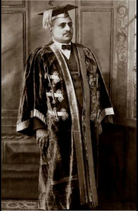 Lawyer and author